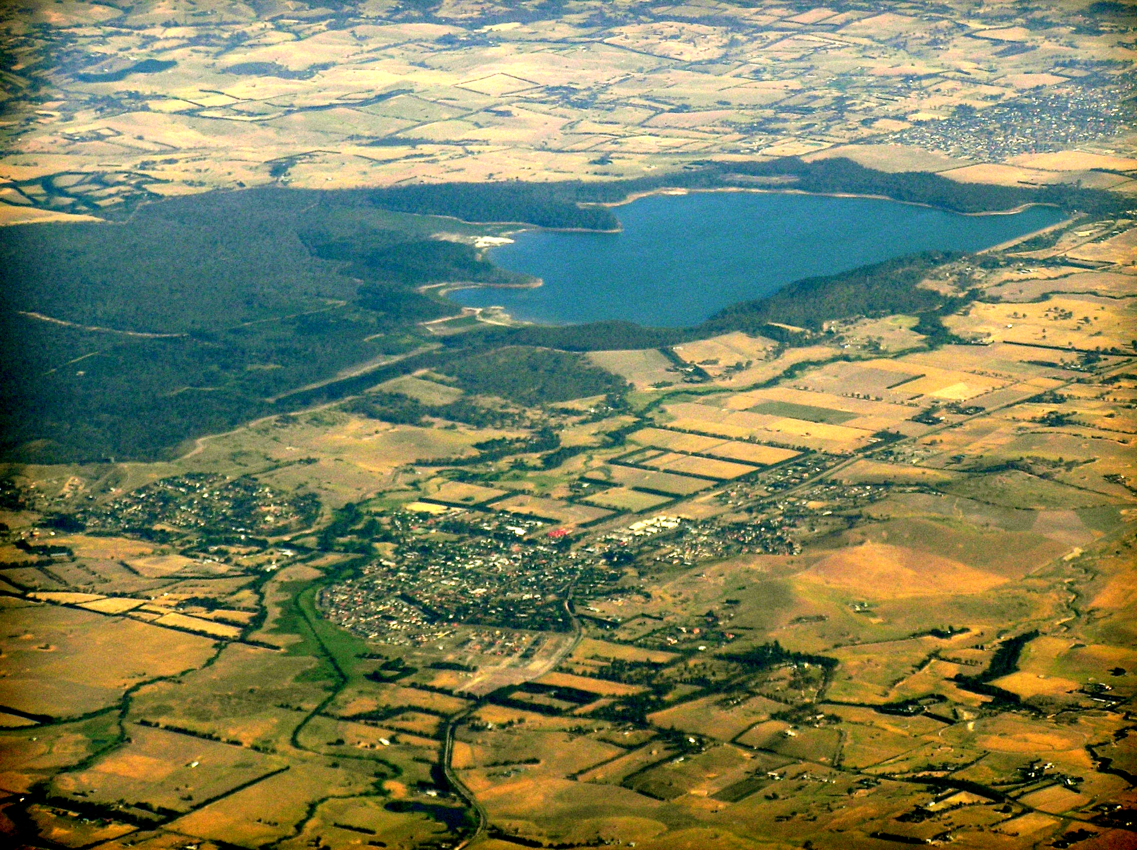 Whittlesea and Yan Yean Reservoir in Victoria view from North. Whittlesea is in the foreground. Yan Yean village is in the background, with the reservoir in between.